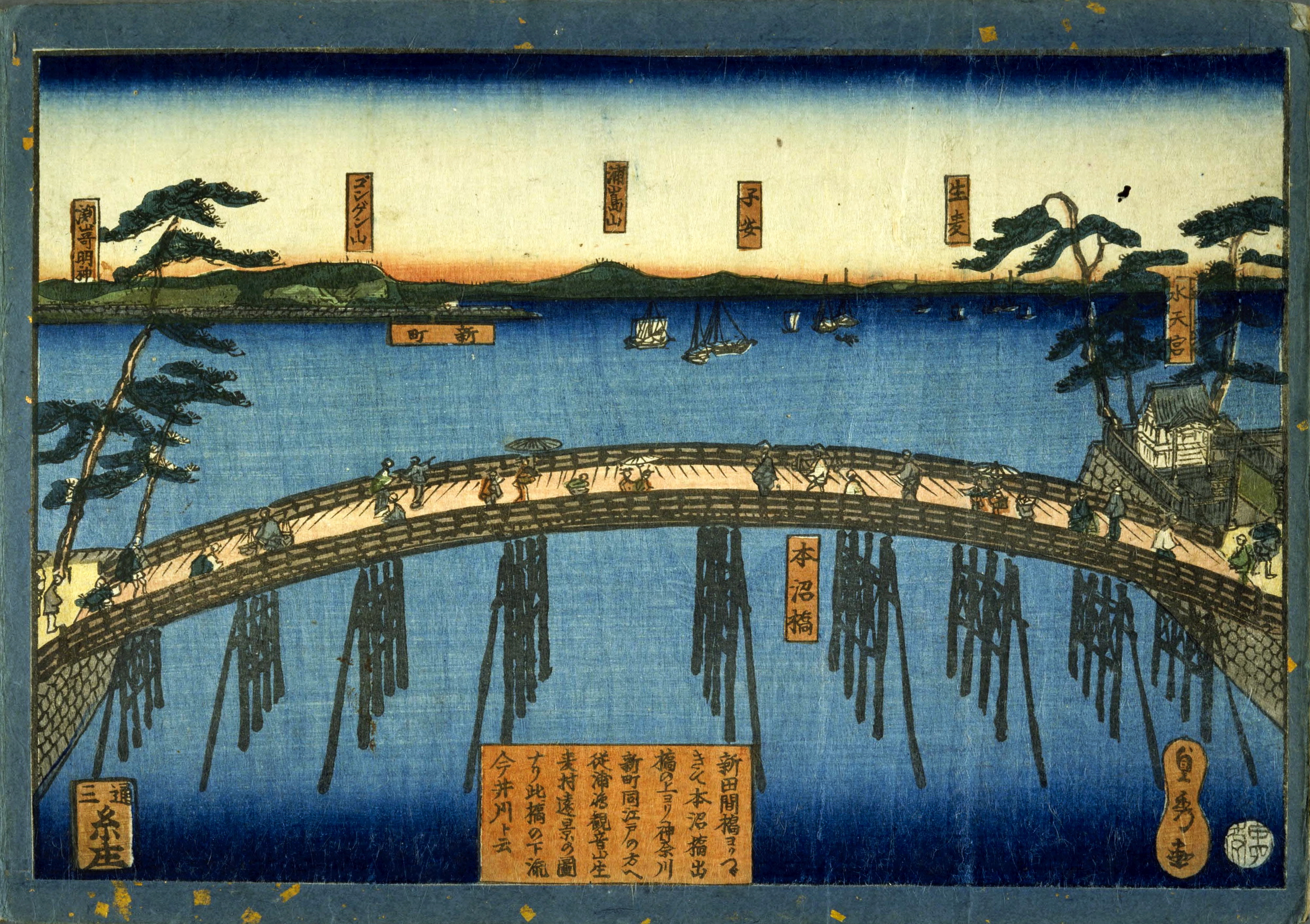 Hon-numa Bridge over the Aratama River in Yokohama City.